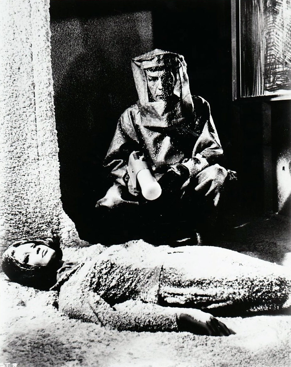 A promotional photo for the Star Trek: The Original Series episode "The Naked Time".